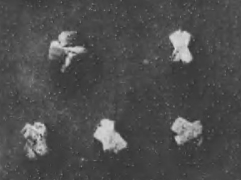 Shinano-kobutsu-shi Chigai-ishi (Ueda, Nagano).